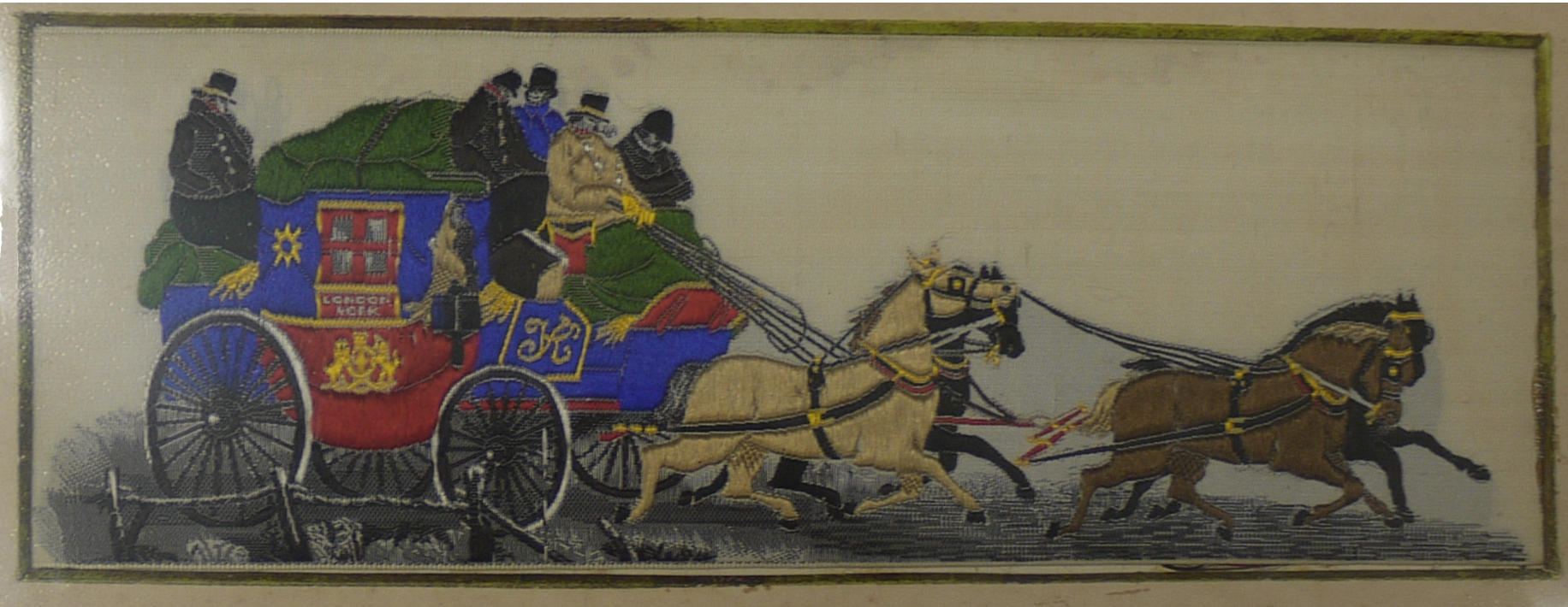 Photo of a Silk picture of the London and York royal mail coach